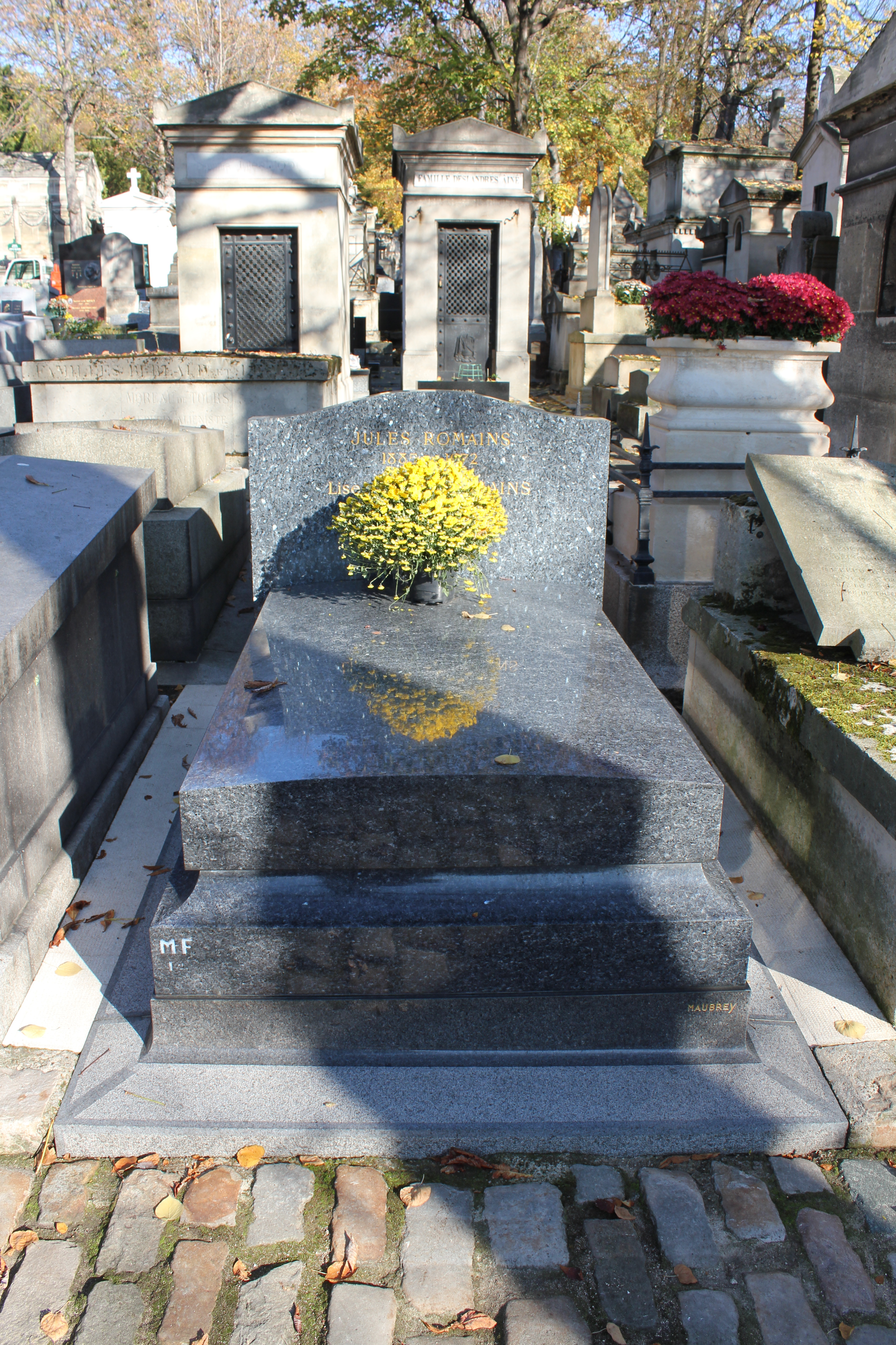 The tombstone of Jules Romains in Père Lachaise Cemetery, in Paris.